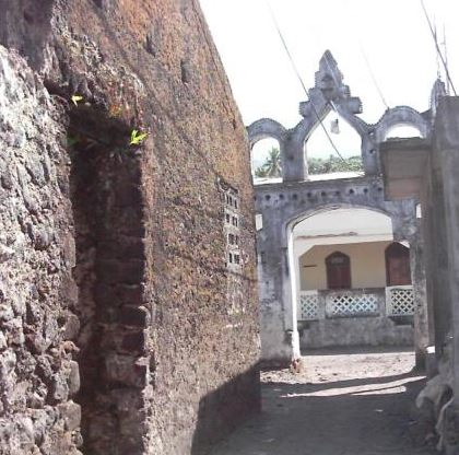 ancien Mosquée